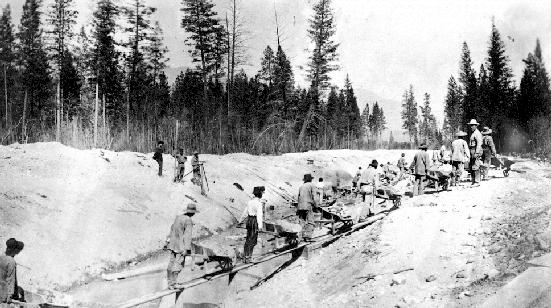 Canal construction at Canal Flats, British Columbia 1887, showing Chinese work crew. Surveyors are also shown at upper right on canal bank.